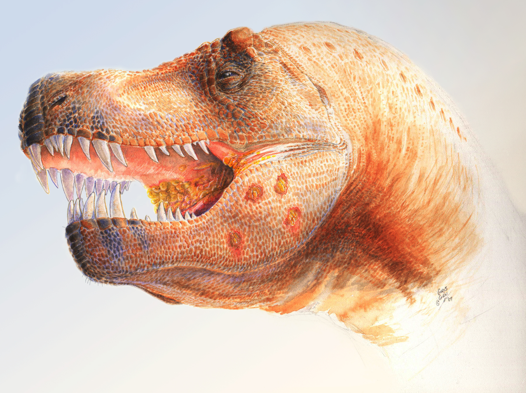 Hypothesized reconstruction of the Trichomonas-like infection of the oropharynx and mandible of MOR 980, commonly known as ‘Peck's Rex’ Note the yellowing of the oropharyngeal area at the back of the mouth and developed lesions within the mandible that penetrate the full thickness of the bone. This reconstruction is based on photographs of living birds and bird necropsies of individuals with trichomonosis.